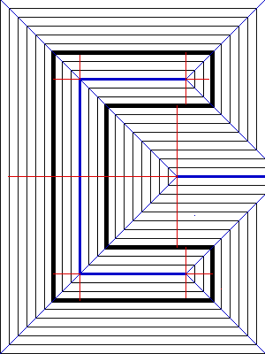 fold and one cut growing and shrinking the shape,Straight skeleton, Perpendiculars added.